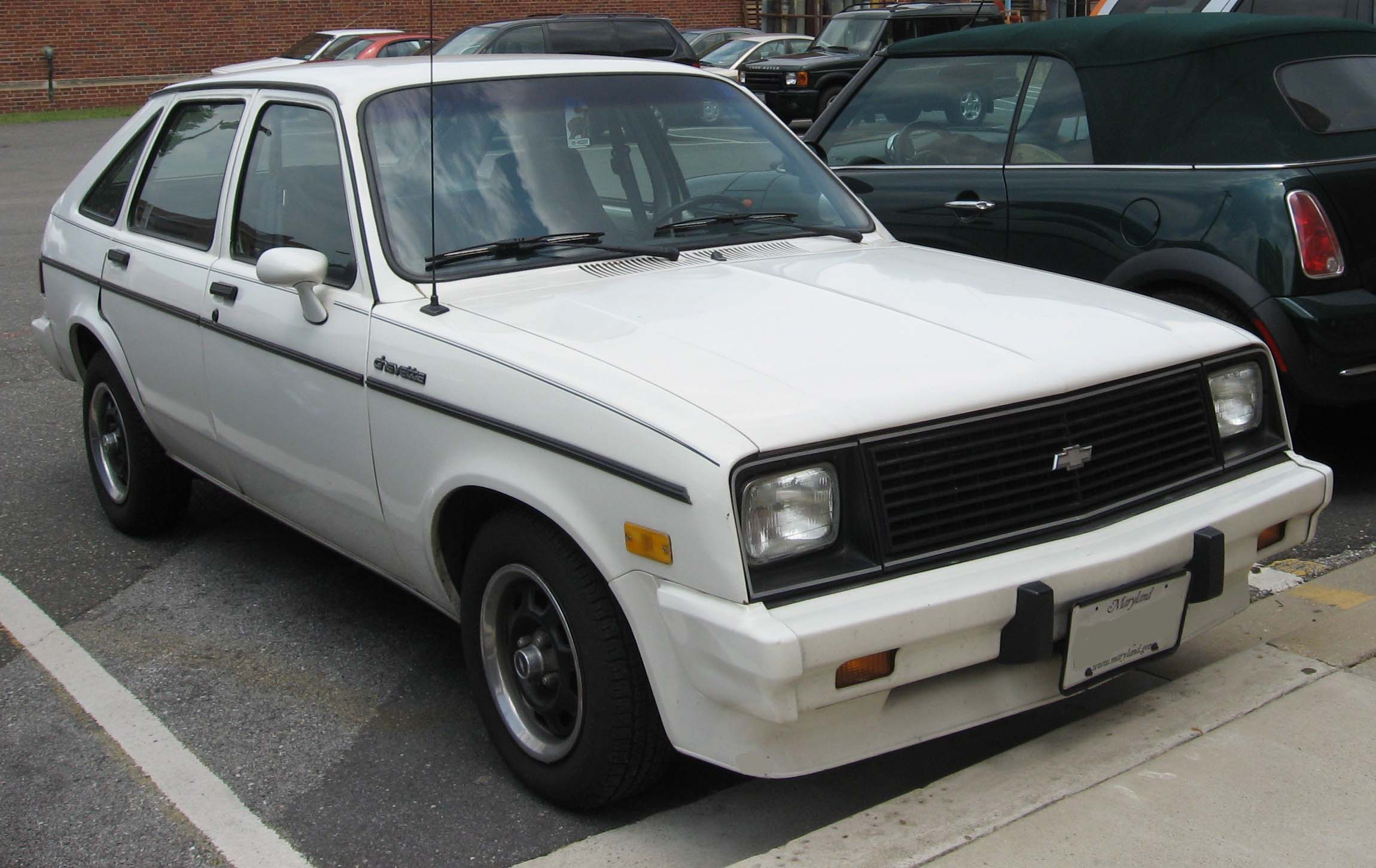 1983-1985 Chevrolet Chevette photographed in USA.